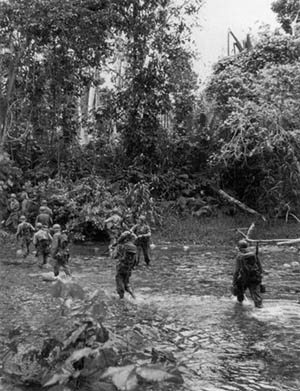 Troops of the 32d Division near Saidor.